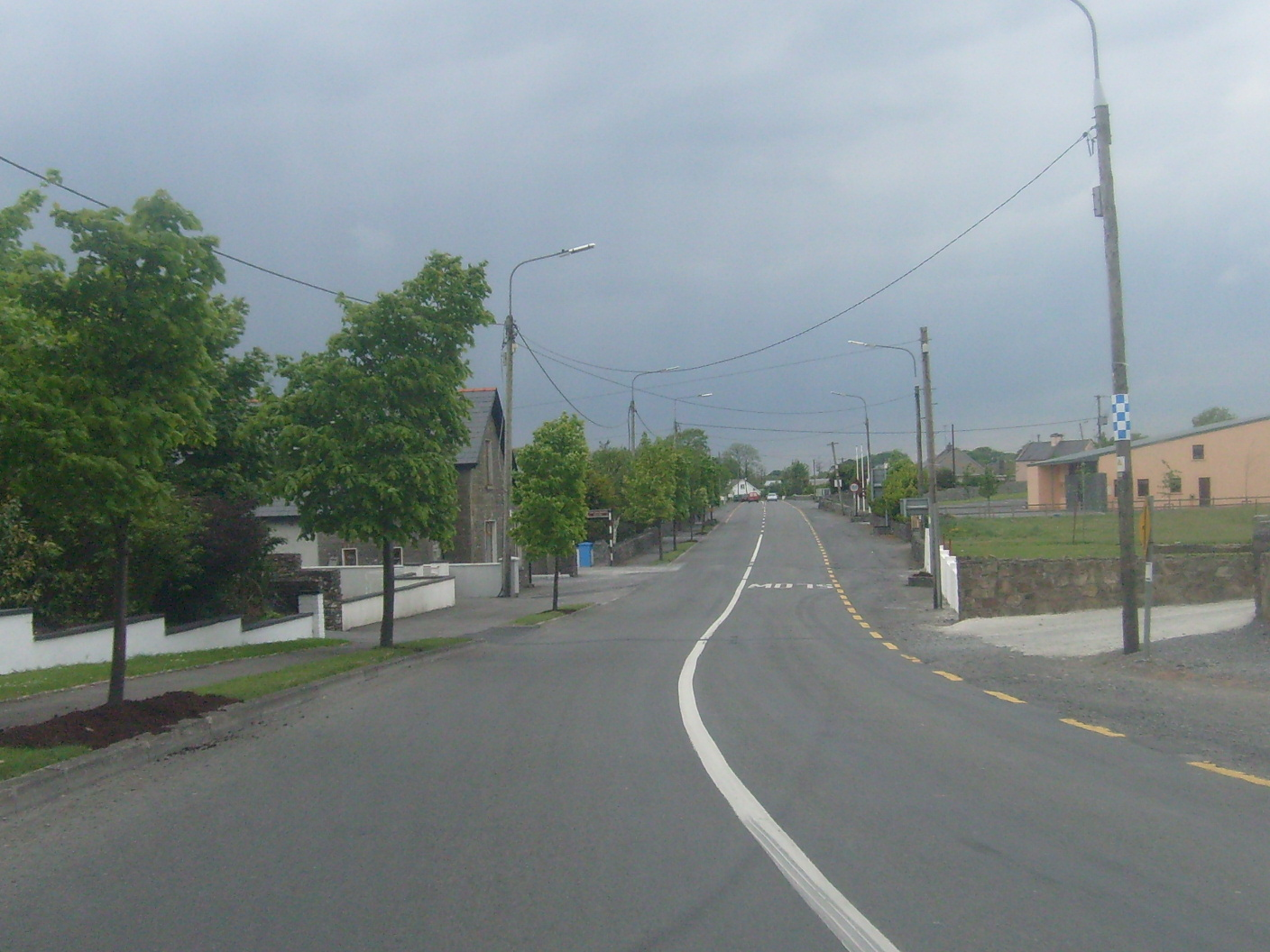 Milltown, Co Galway, Éire